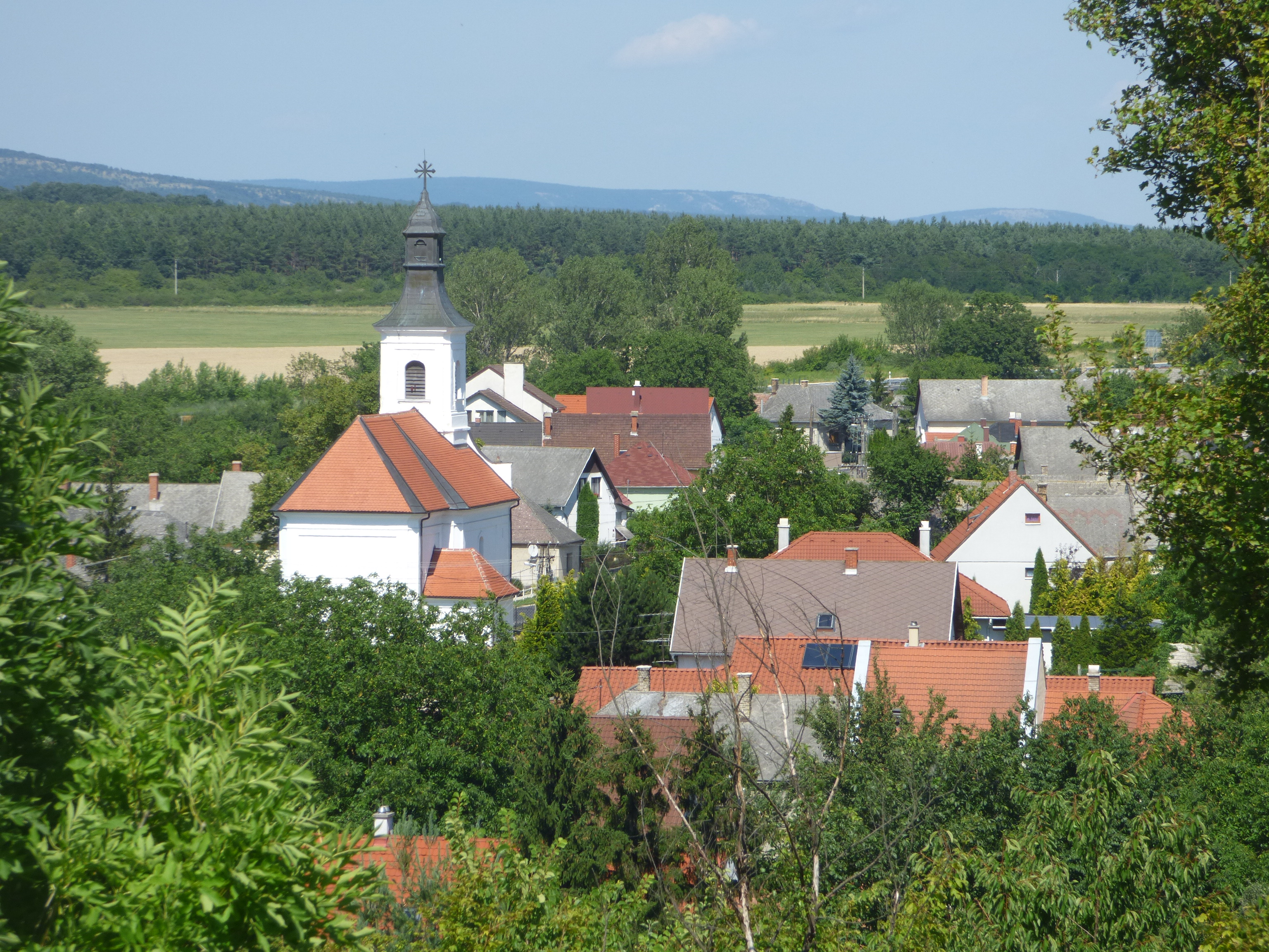 Bánd keleti része az Essegvárból nézve